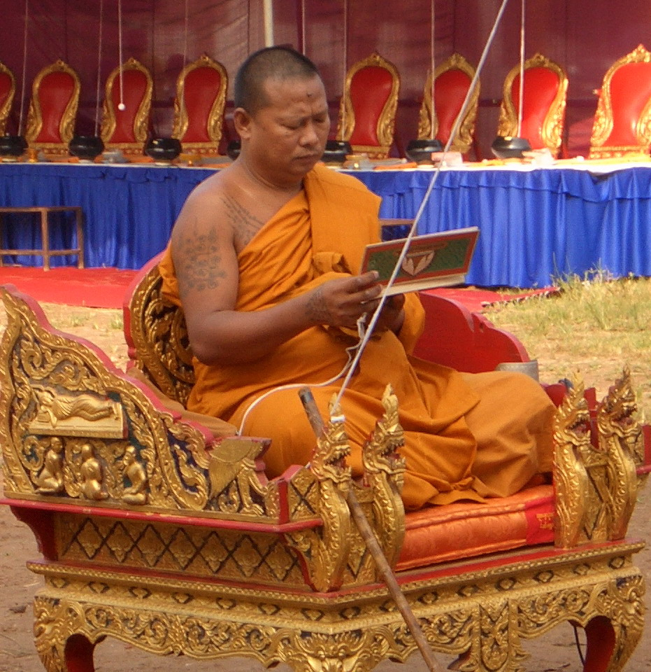 In Uttaradit, Thai monk preaches.